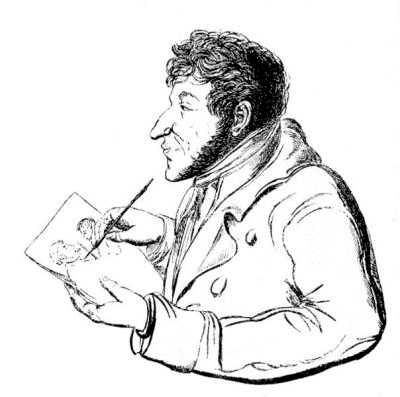 Selbstkarikatur von E.T.A. Hoffmann public domain